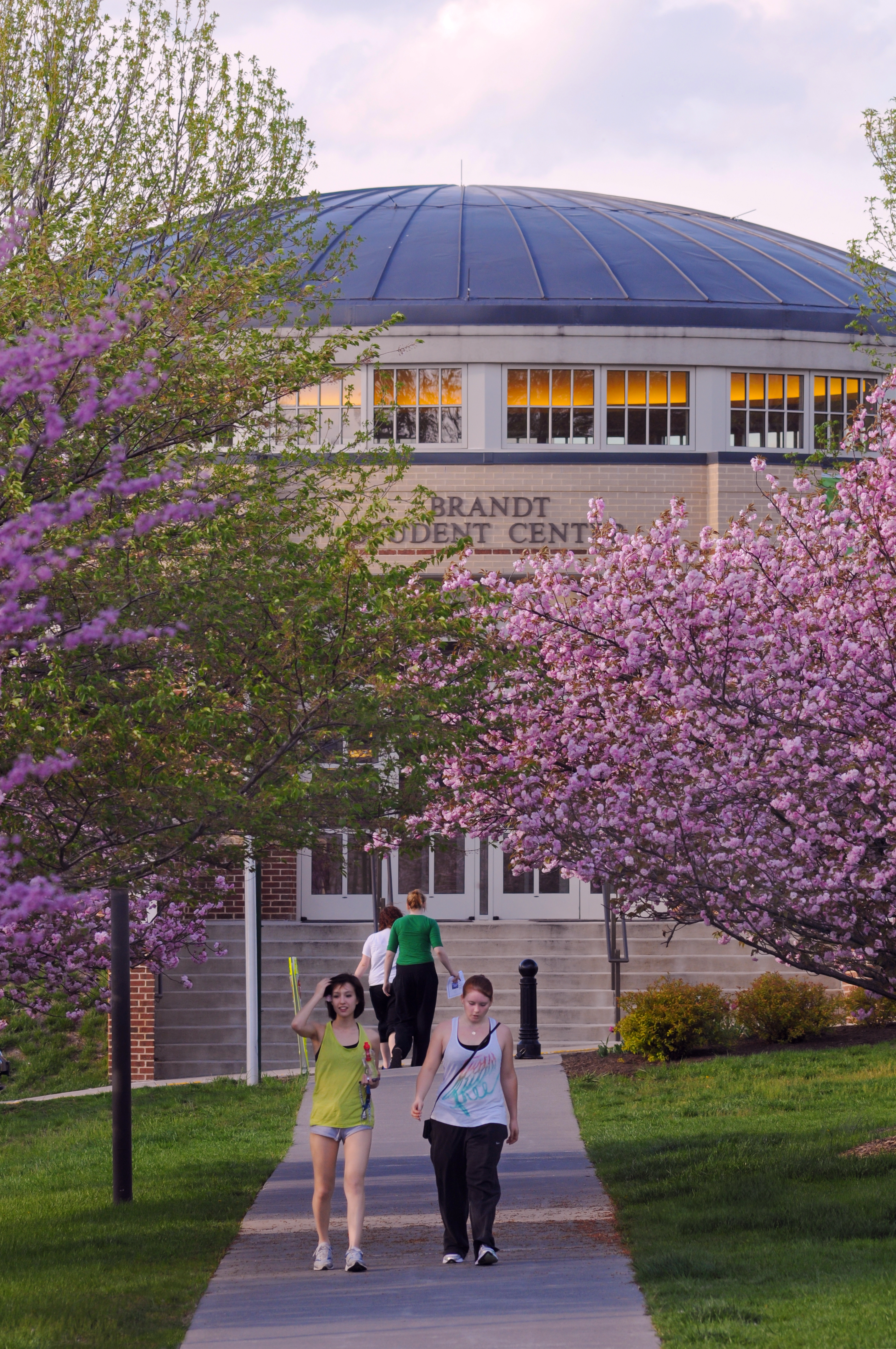 A view toward the Brandt Student Center during spring.